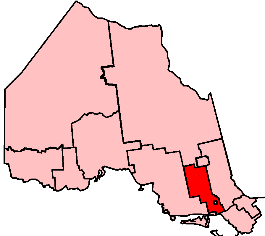 Nickel Belt 2018 boundaries